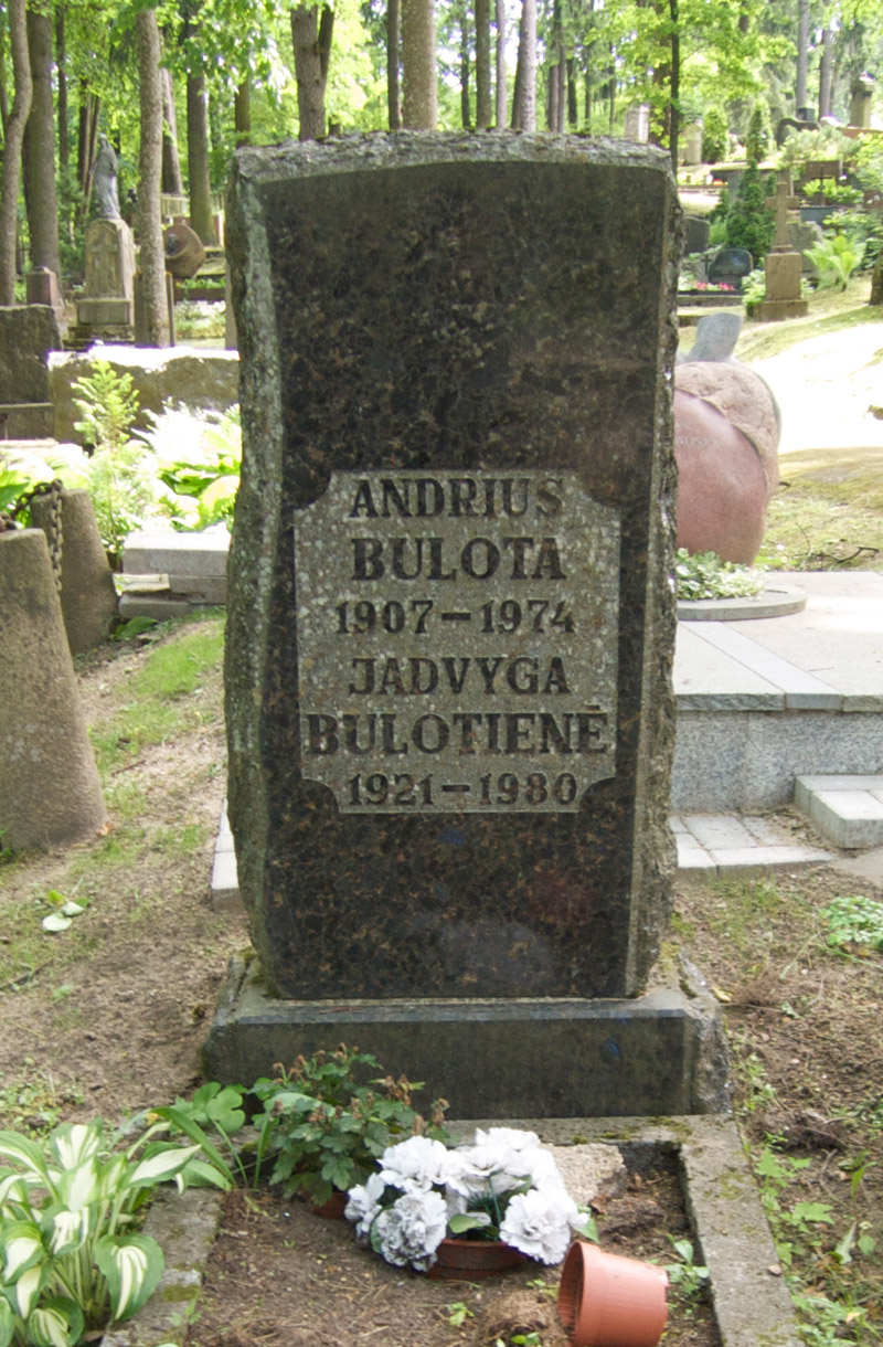 Andrius Bulota (b. 1907) grave in Antakalnis Cemetery (Vilnius, Lithuania)